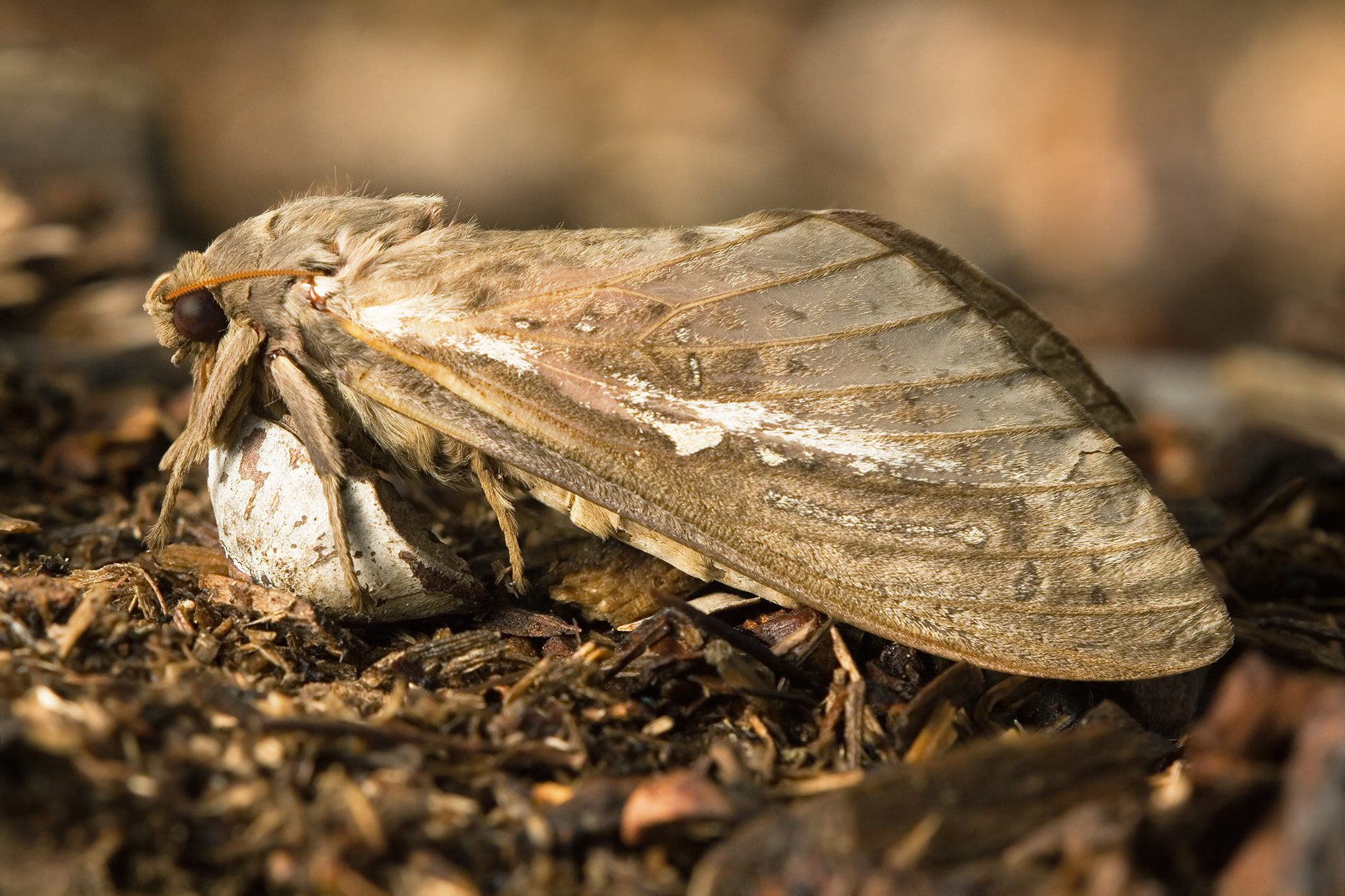 Pindi Moth Abantiades latipennis, Austins Ferry, Tasmania, Australia